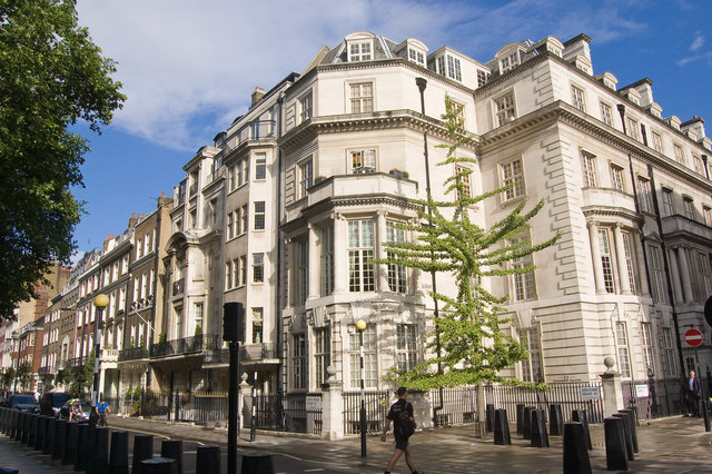 Upper Brook Street Just after an early morning shower.